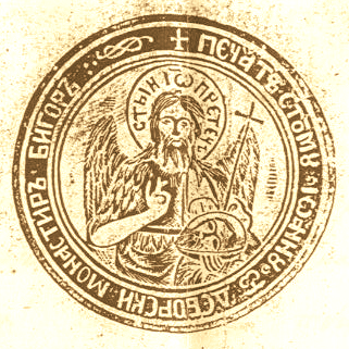 Bigor Monastery Seal